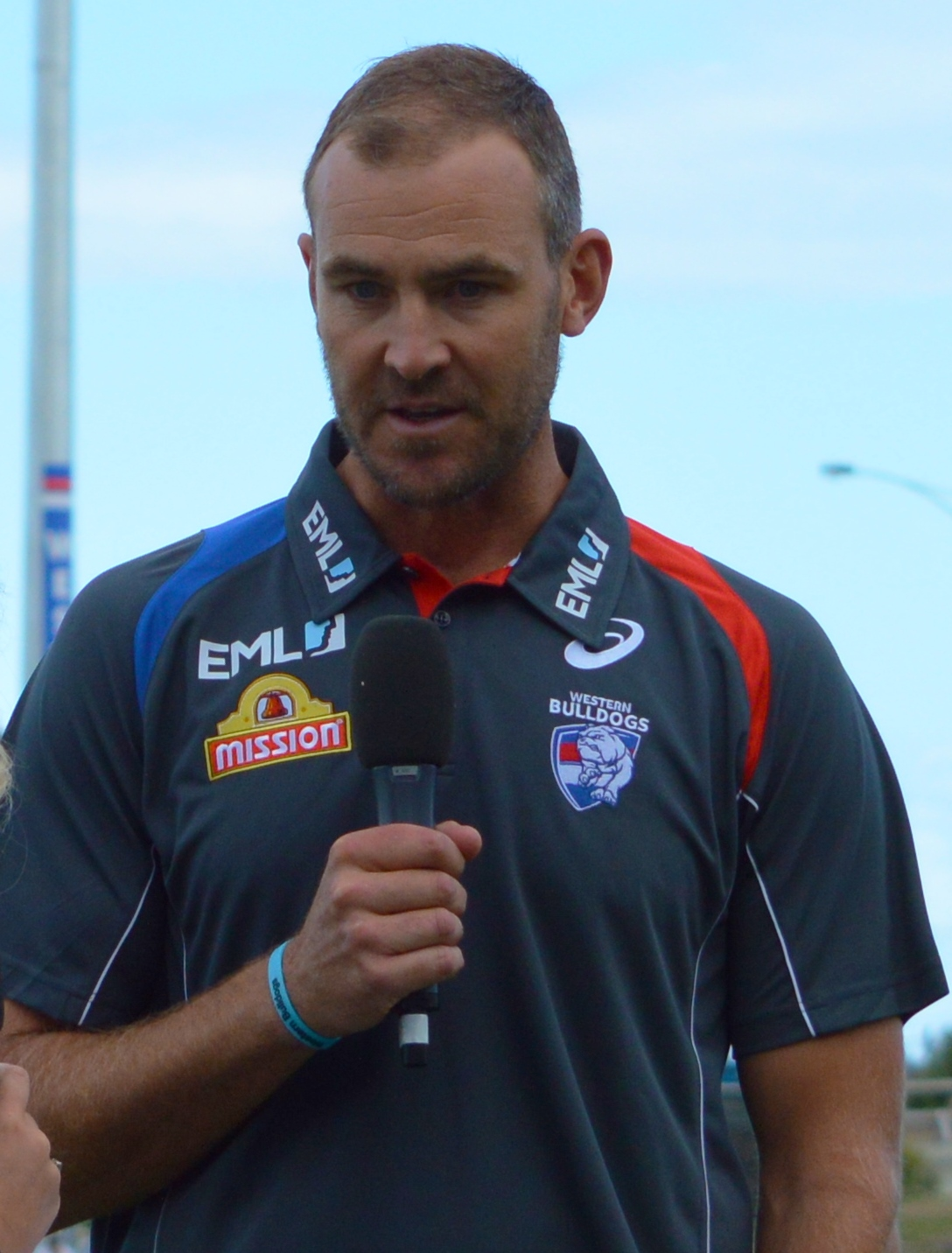 King in his role as Western Bulldogs backline coach in February 2017